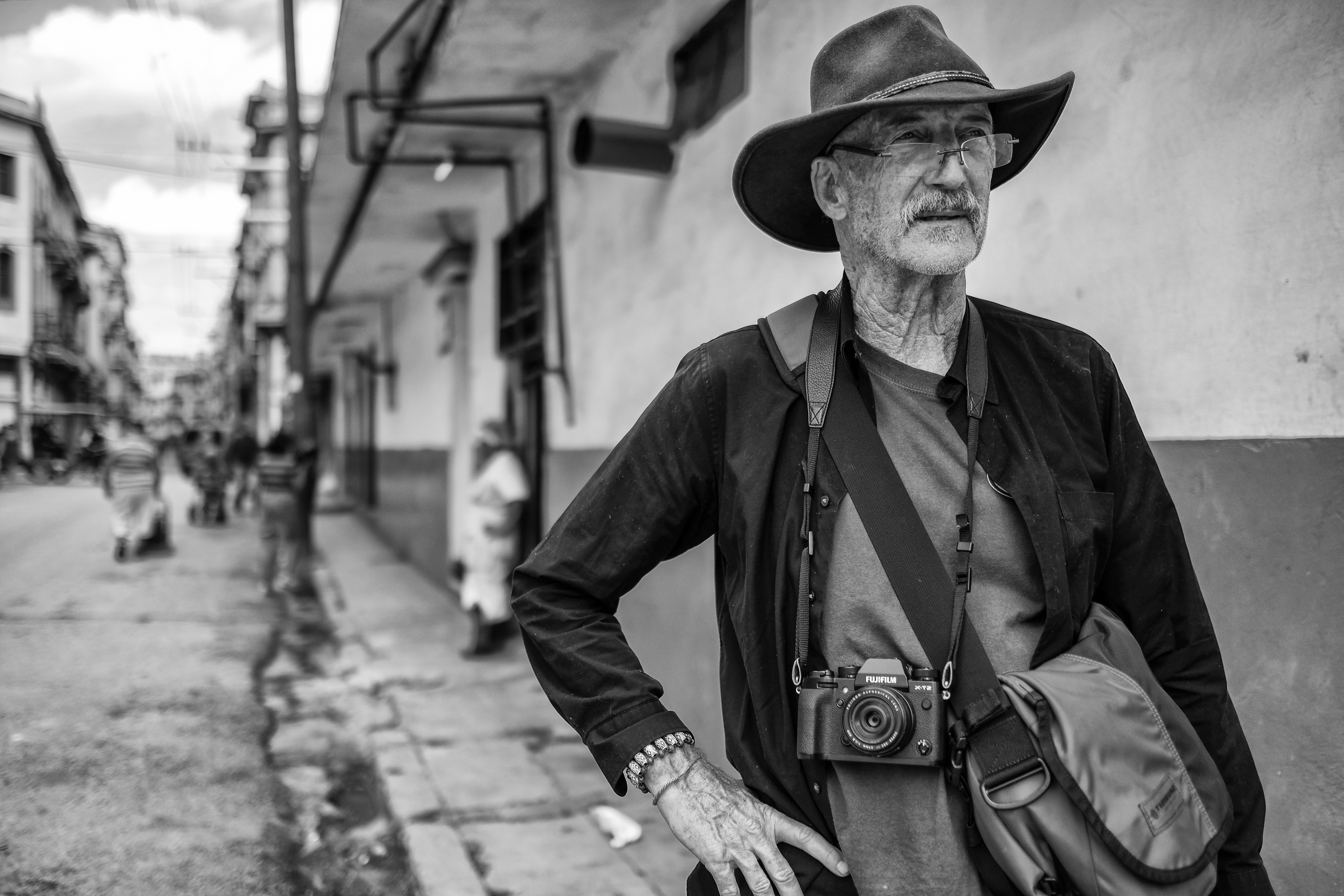 David Alan Harvey in Havana taken by Christopher Michel in 2017.